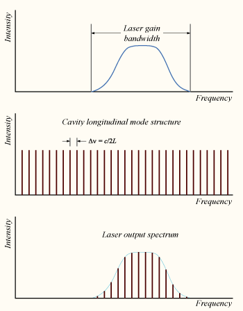 Cavity mode diagram, for the modelocking article. Drawn by DrBob.